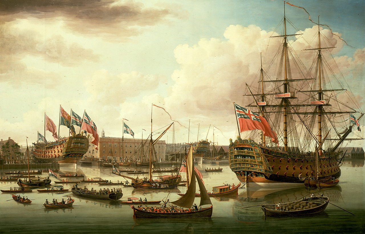 A fictitious combination of two events set in Deptford Dockyard in southeast London, England, UK: the launch of the H.M.S. Cambridge (left) in Deptford on 21 October 1755, and the H.M.S. Royal George (right) which was actually launched at Woolwich Dockyard the following year.